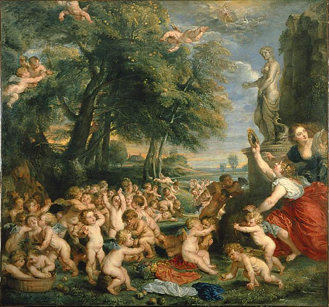 „Worship of Venus“ is a pendant to „The Adrians“. The paintings are copies of Tizian.